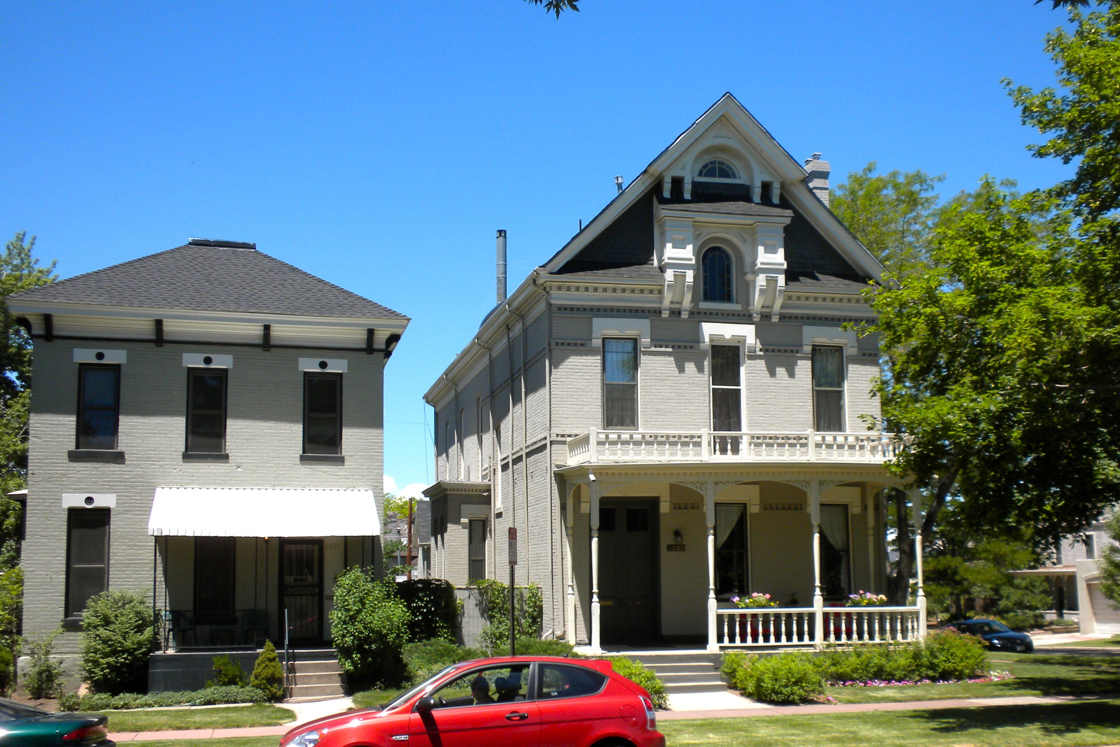 Curtis-Champa Streets District, in Denver, Colorado, on NRHP since April 1, 1975. Historic district roughly bounded by Arapahoe, 30th, California, and 24th Sts.; and a boundary increase of roughly 30th, Stout, Downing and Arapahoe Sts. in Five Points neighborhood of Denver.